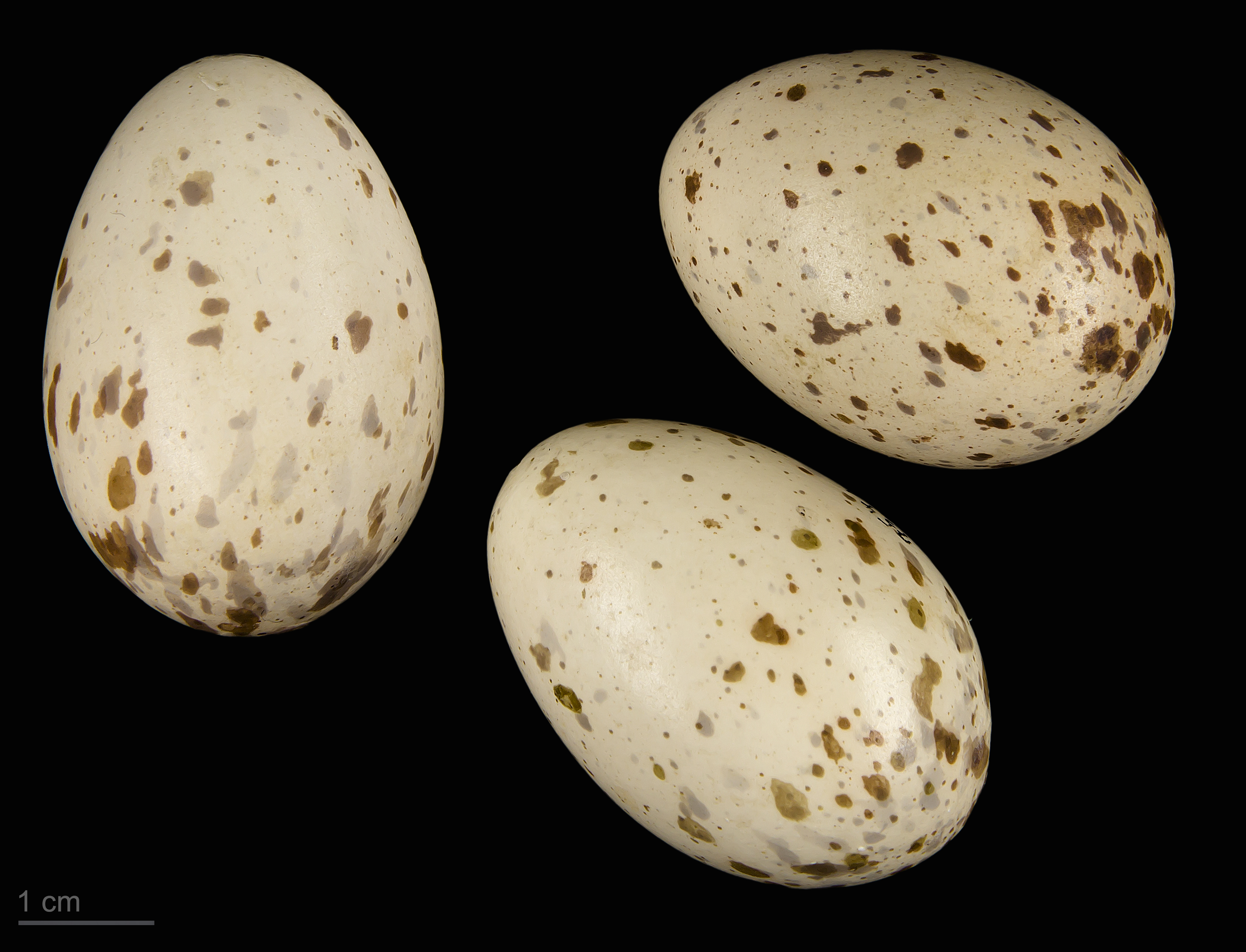 Eggs of buff-banded rail Three specimens of the same spawn ; collection of Jacques Perrin de Brichambaut.